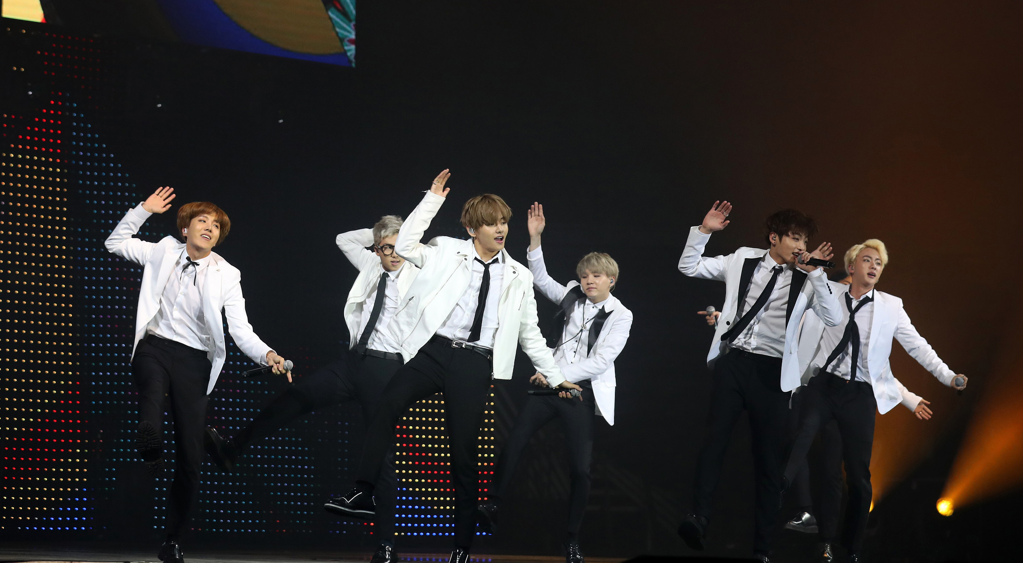 Bangtan Boys at KCON France 2016 in Paris on June 2, 2016.